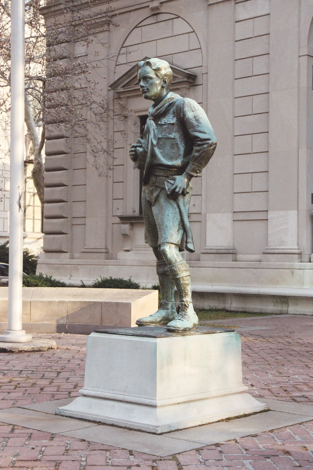 Ideal Scout Statue by Robert Tait McKenzie, 22nd & Winter Streets, Philadelphia, PA